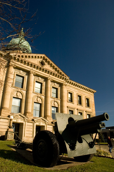 Lawrence County Courthouse, Ironton, Ohio, USA. The gun is a 155 mm howitzer M1917 or M1918, either French-made or based on a French design.